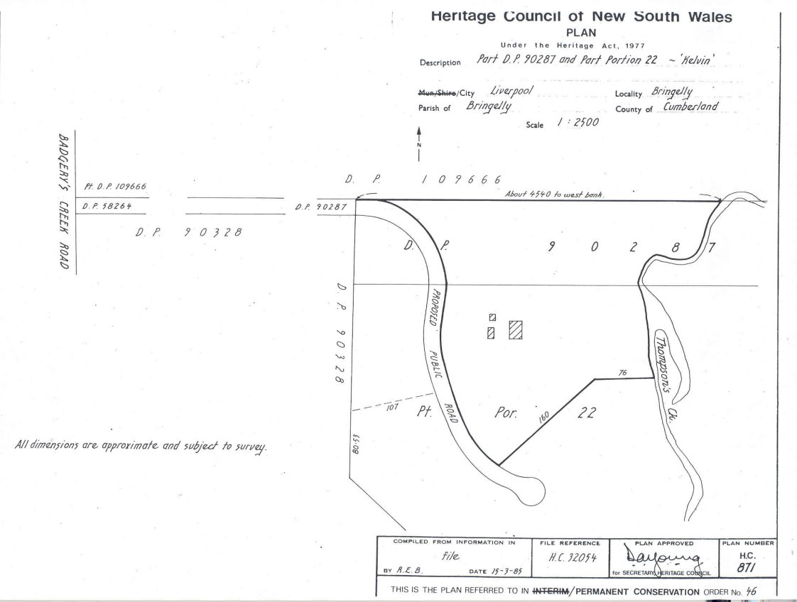 Kelvin, Bringelly: PCO Plan Number 871